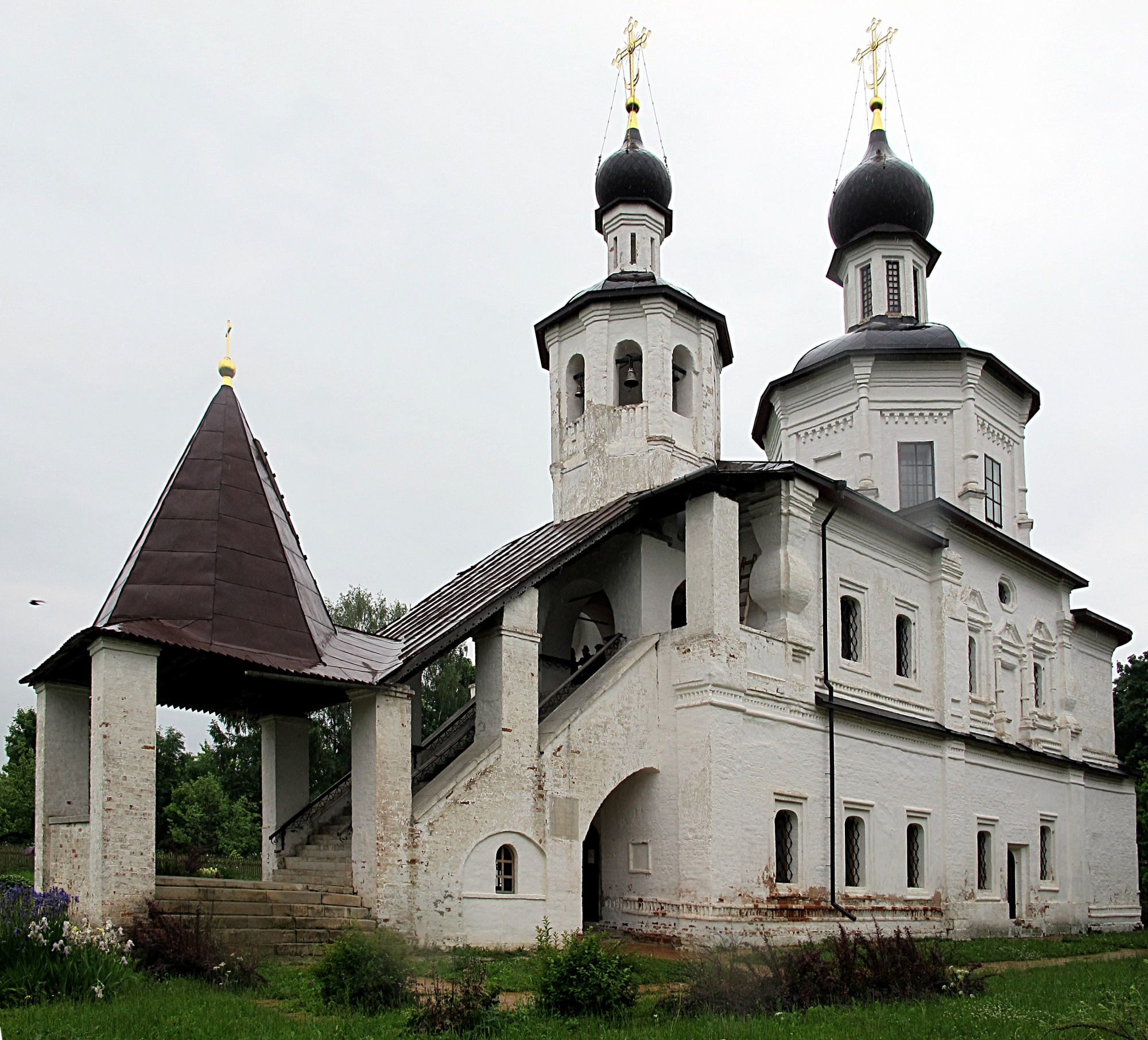 Borodino Church (2012-06-10).